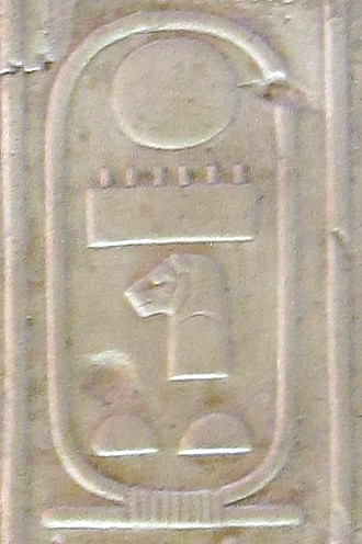 Cartouche 75, Abydos King List. Temple of Seti I, Abydos, Egypt